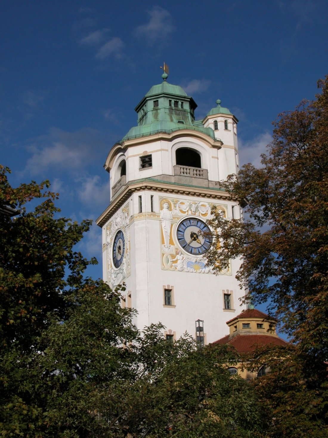 Tower of the Müller'sches Volksbad